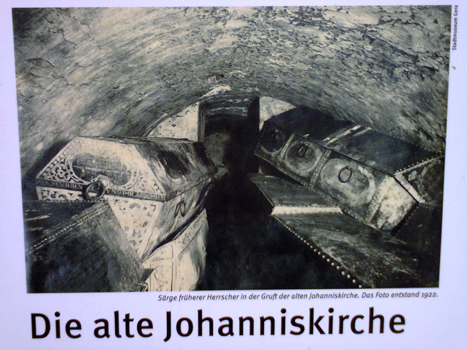 Princes' crypt in Gera, opened in 1922